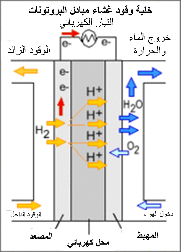 Diagram of PEMFC in Arabic language